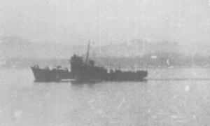 IJN No.1 class auxiliary submarine chaser, data unknown.